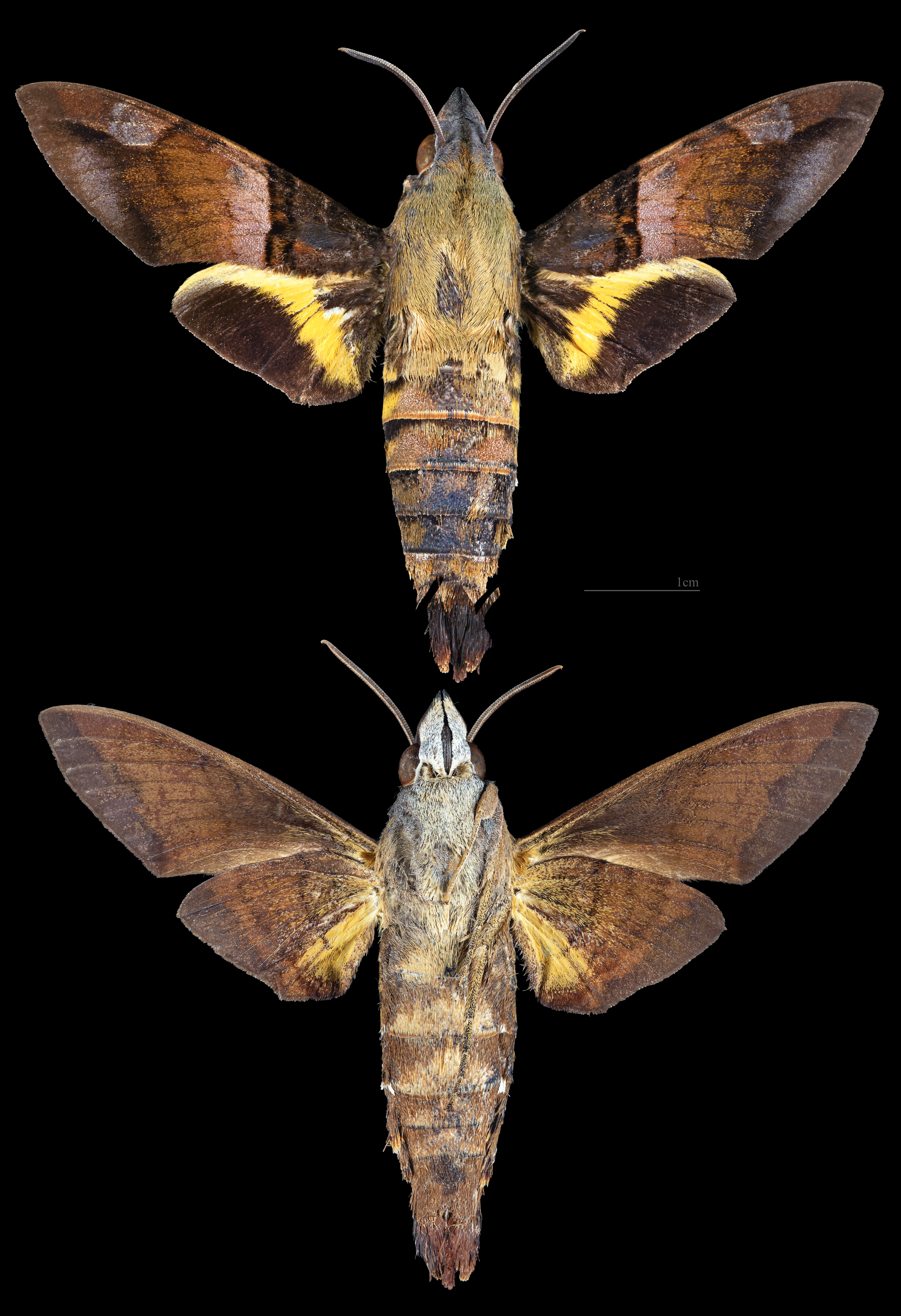 Macroglossum faro - Two views of same specimen Collection of the Mathematician Laurent Schwartz